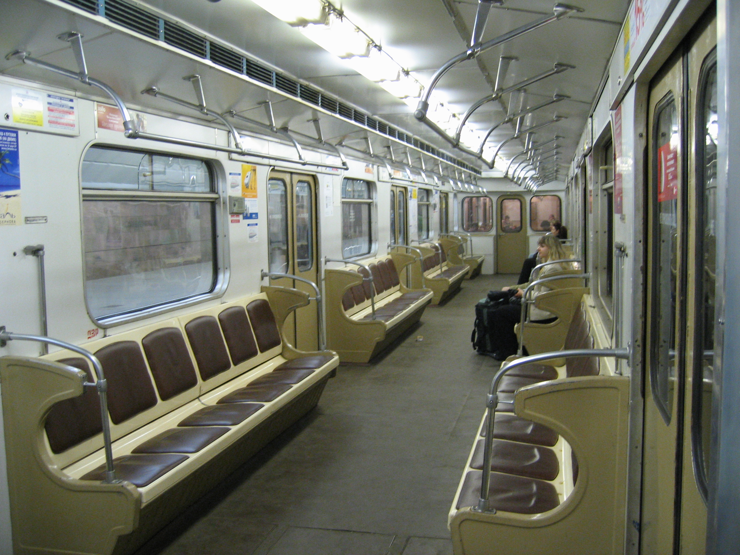 Train E (modernized version), view inside